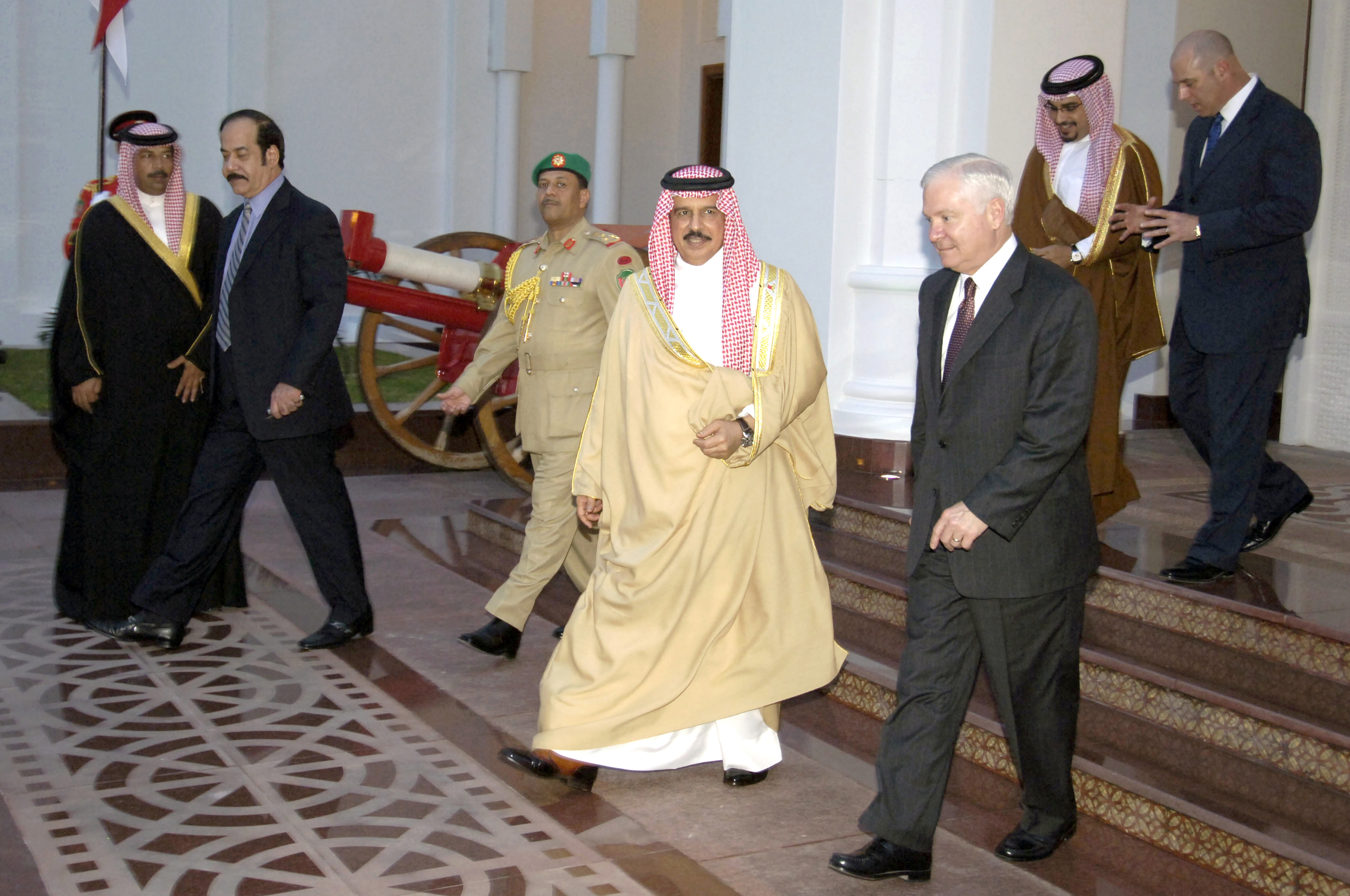 MANAMA CITY, Bahrain (Dec. 6, 2007) Defense Secretary Robert M. Gates walks with Crown Prince His Majesty Hamad bin Al-Khalifa in Bahrain while on a visit to Southwest Asia, Dec. 6, 2007. Secretary Gates is in the region to discuss defense issues and receive updates from commanders. Defense Dept. photo by U.S. Air Force Tech. Sgt. Jerry Morrison (Released)